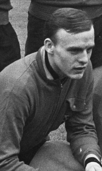 Johnny/Johny Thio, before the international game Netherlands vs. Belgium, April 17, 1966.